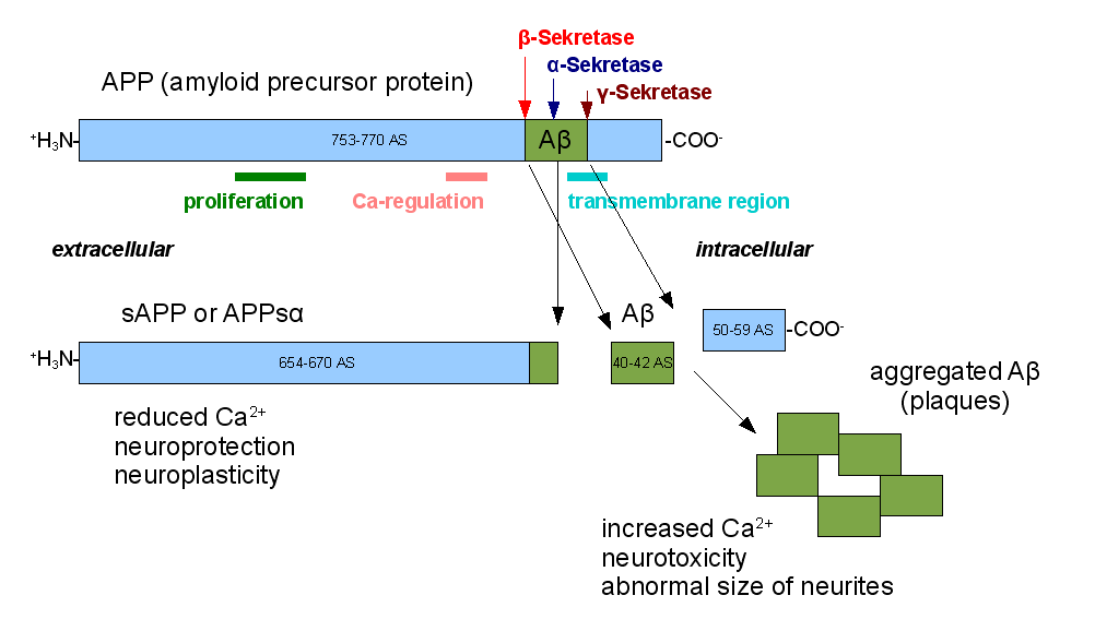 Cleavage of APP (amyloide precursor protein)